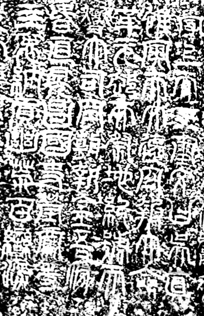 Inscription with the Ritual to God at Mt. Guoshan. "封禅国山碑" large-size.